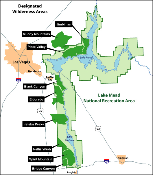 A map of the nine wilderness areas located in or partially in Lake Mead National Recreation Area